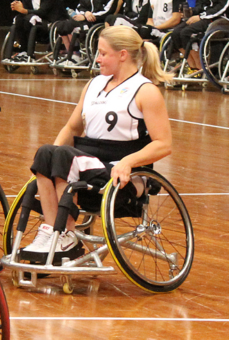 Germany vs Japan women's wheelchair basketball team at the Sports Centre.